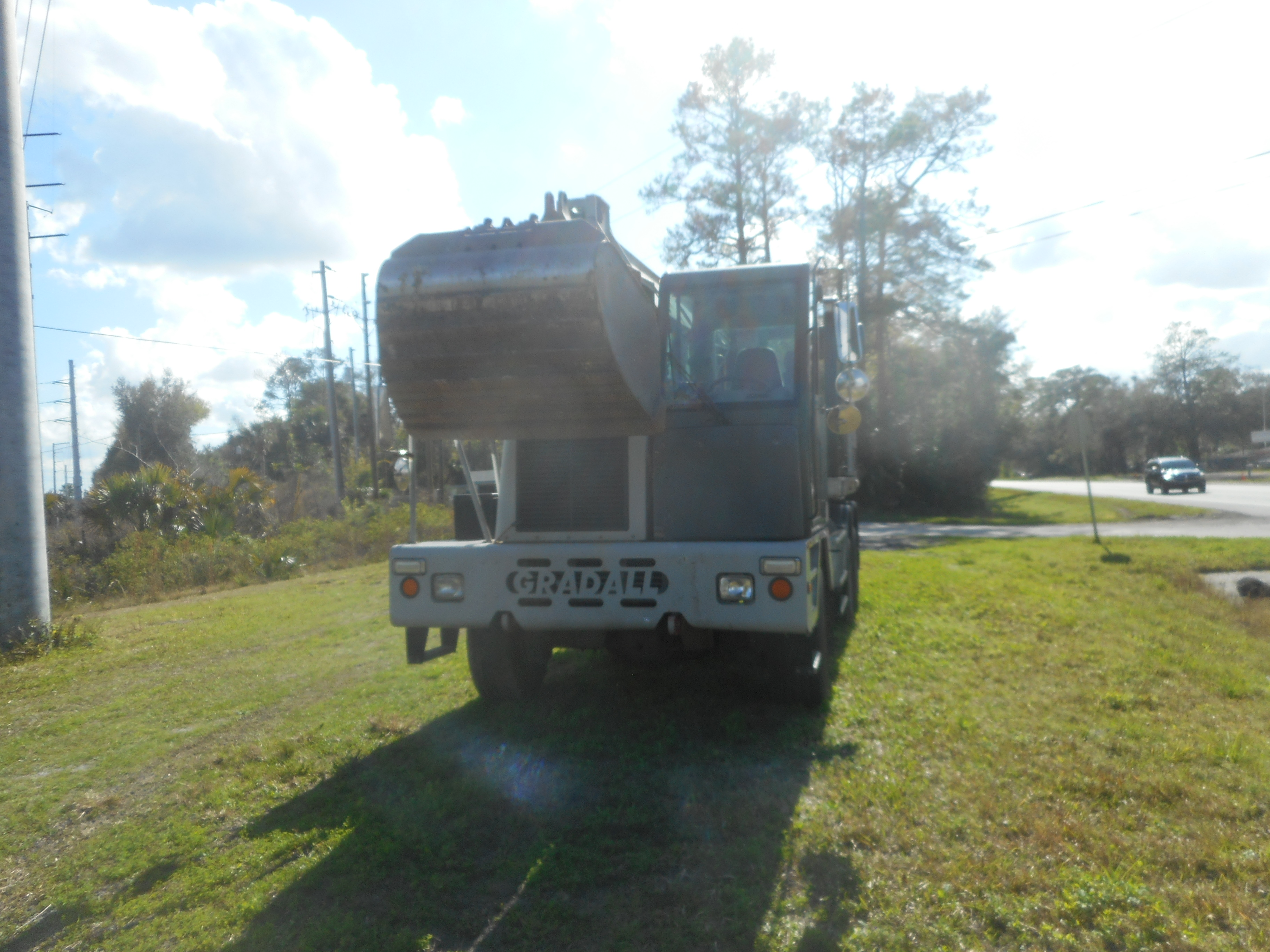 A Gradall XL5100-III excavator parked along Florida State Road 44 between the intersections of Linda Drive and Celery Street in St Johns Gardens, Florida, west of DeLand. The excavator is owned by the Florida Department of Transportation, and was spotted as I was driving back from Metropolitan Orlando, and DeLand that day. In order to get these shots, I had to turn on Linda Drive and park my car in the grass between there and Celery Street in front of a power line right of way and some power substations that you can't see here. The power line crosses the intersection of SR 44, Celery Street and Paradise Drive.